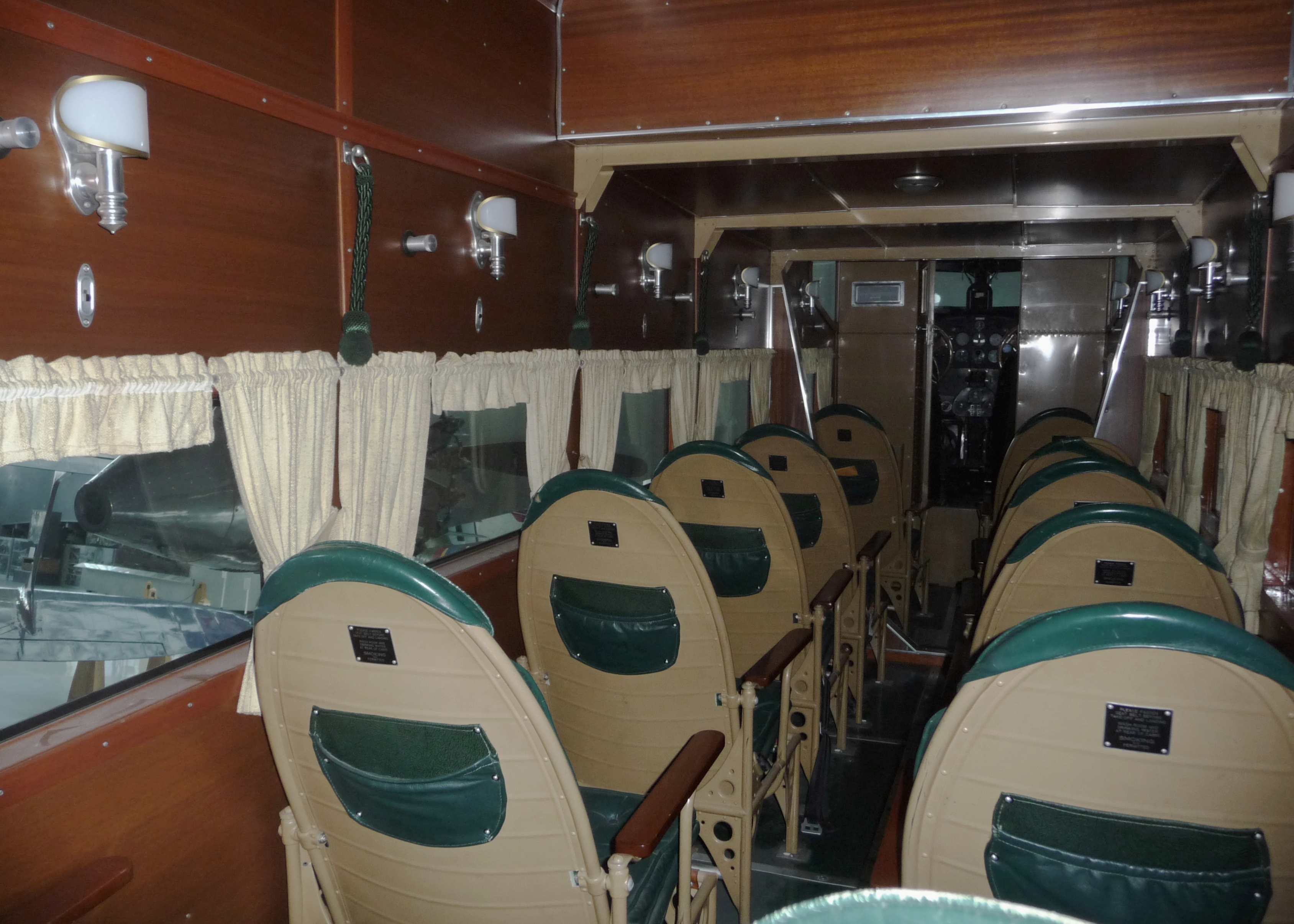 Evergreen Aviation & Space Museum - Ford 5-AT-B - Tin Goose Ford 5-AT-B Tri-Motor Tin Goose Built in 1928, this Tri- Motor, serial number 8, flew the pioneering passenger service between San Diego and New York for Transcontinental Air Transport (TAT) beginning in early 1929.